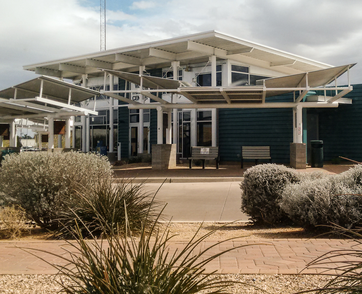 Sierra Vista, Arizona.